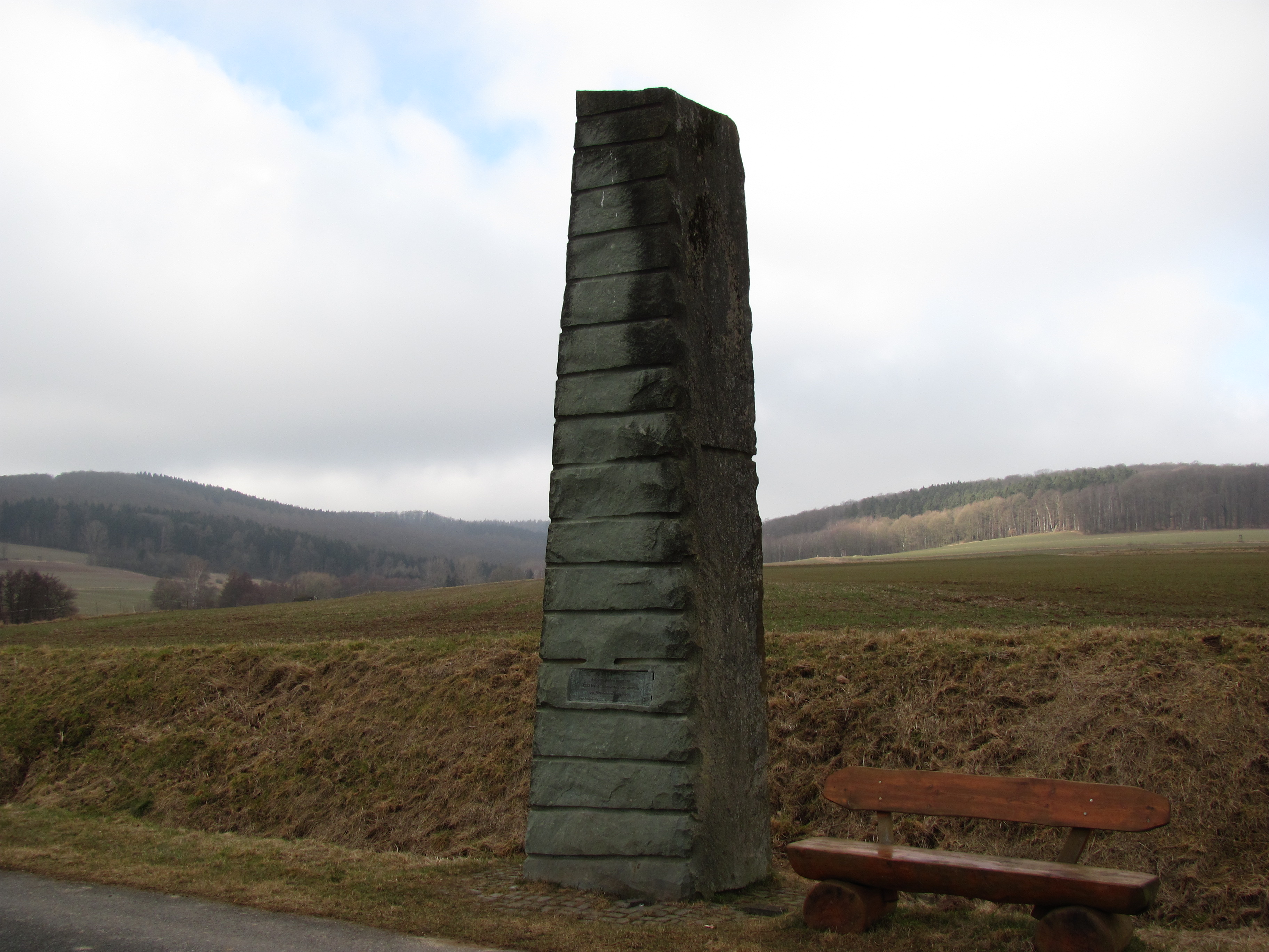 Memorial, Bad Salzdetfurth-Detfurth, Lower Saxony, Germany